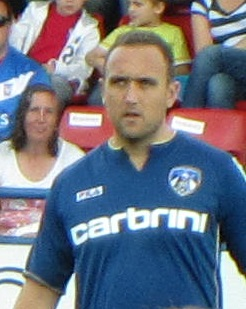 Lee Croft.